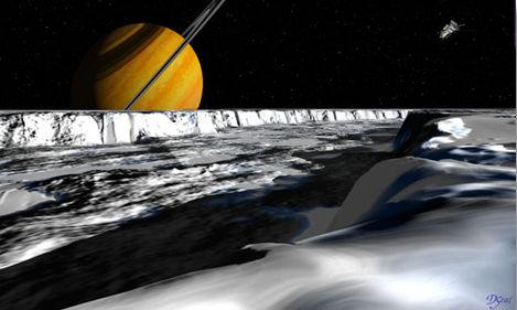 One of the most exciting features of Tethys (and of the whole Saturnian system as well) is Ithaca Chasma, a huge trench which extends from near the north pole down almost all the way to the south pole. It's average width is 100 kilometers (60 miles) and is 4-5 kilometers (2-3 miles) deep. This artist's rendering is drawn from the lip of the large chasm looking into it, with Saturn in the background.